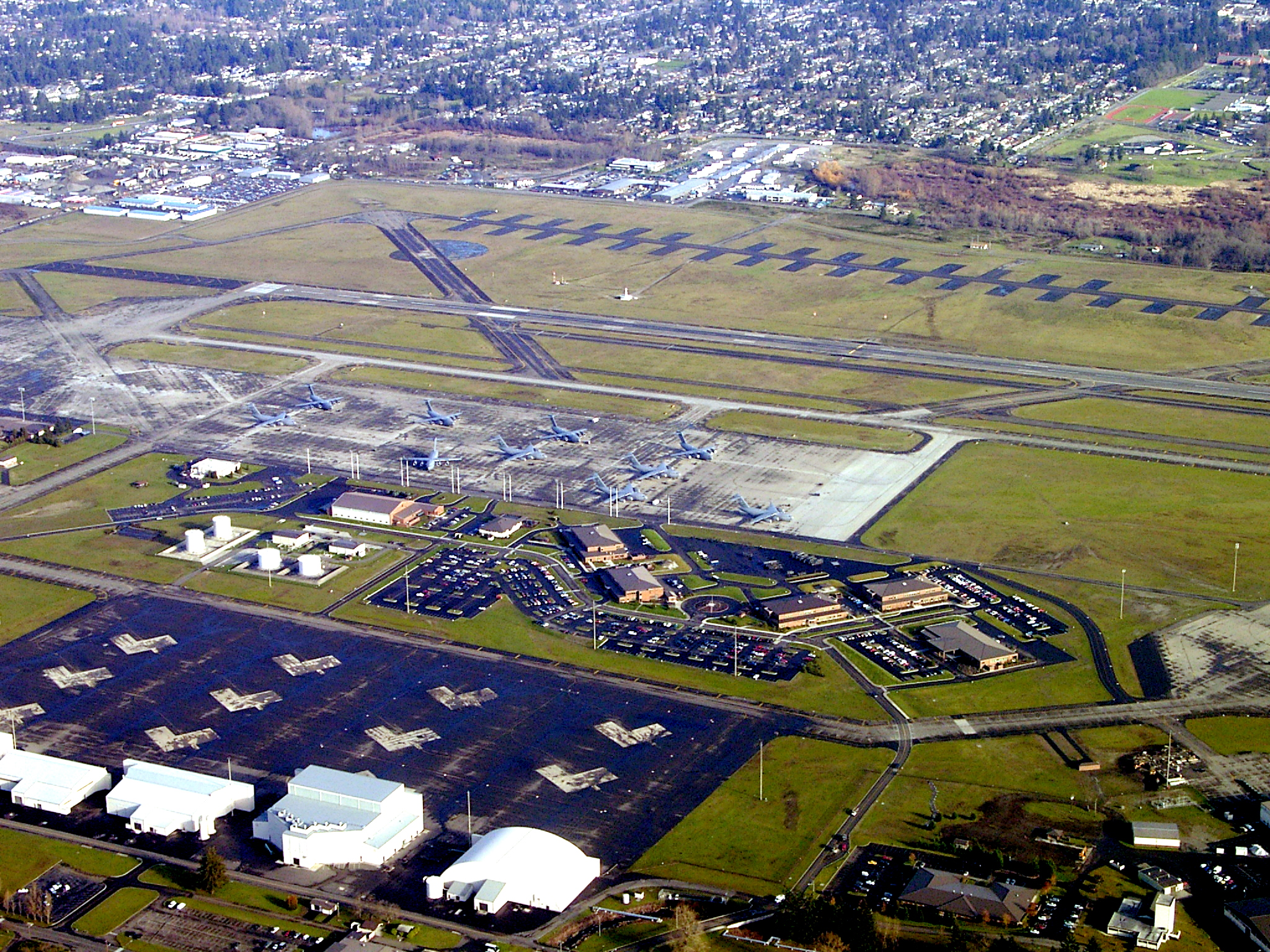 Overhead view of McChord Air Force Base, taken during the Parade of Planes to mark the centennial of flight.